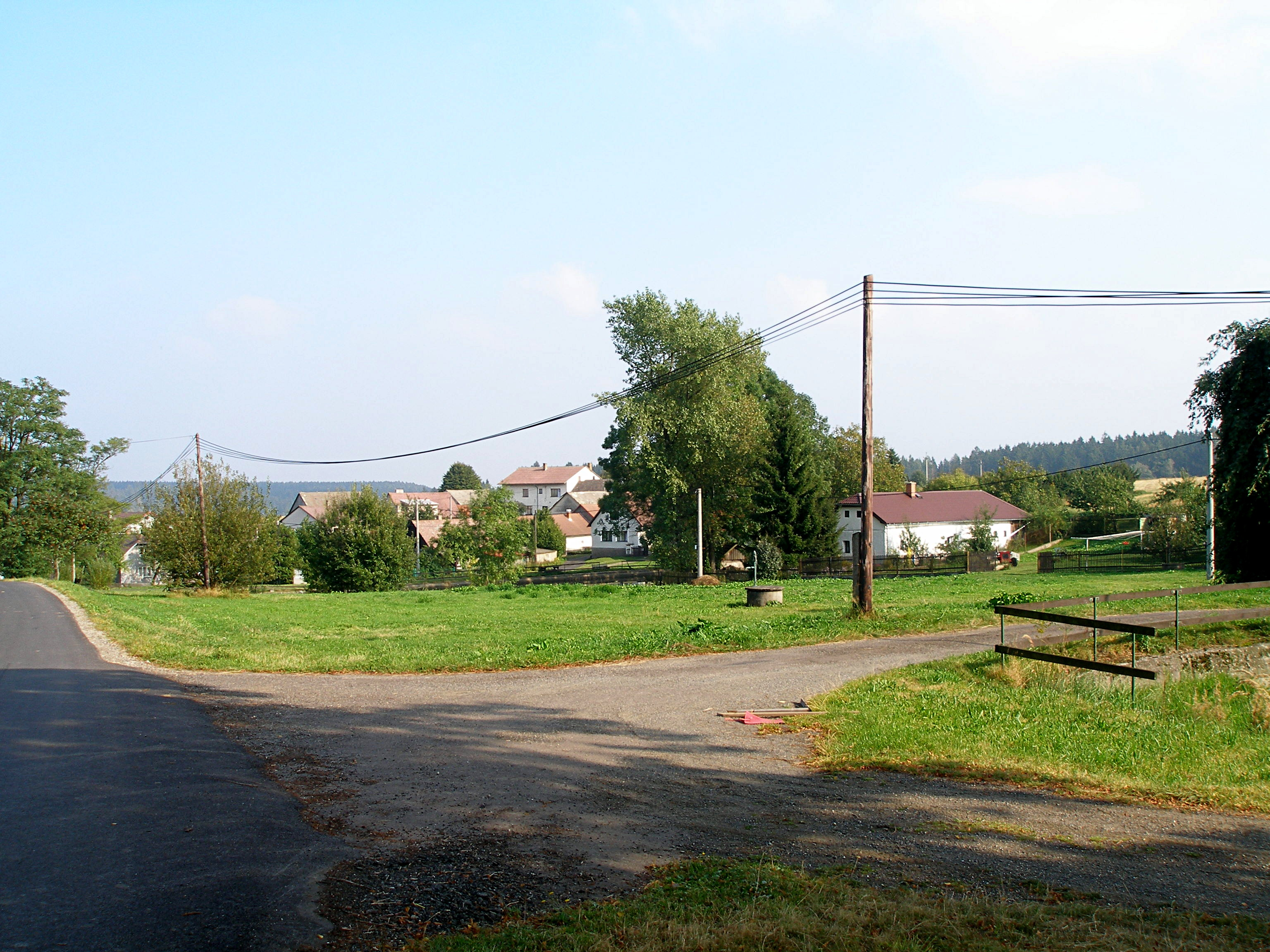 Třebětín (Kutná Hora district) - the South-Eastern part of the willage square